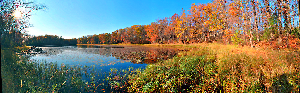 Burnt Wagon Lake, Chippewa Moraine Lakes State Natural Area, WI